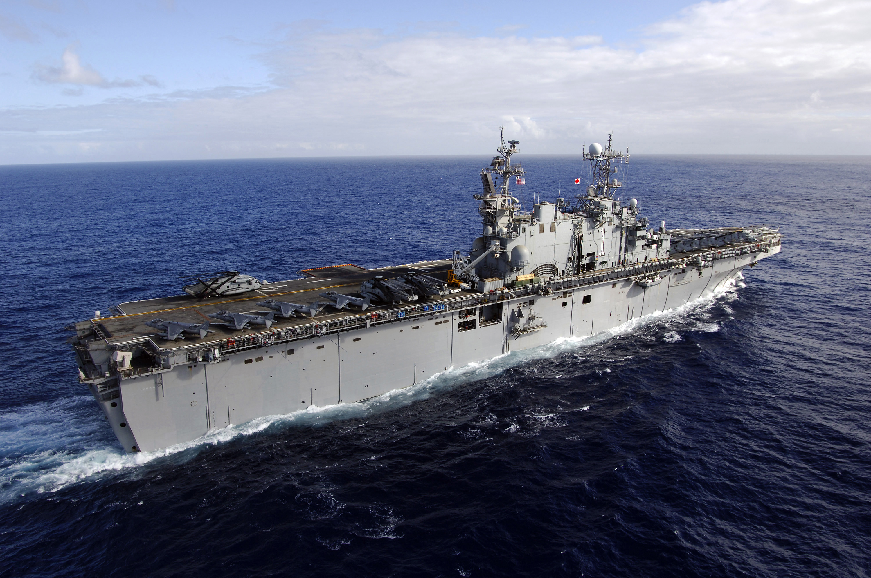 071111-N-6597H-220 PACIFIC OCEAN (Nov. 11, 2007) – Amphibious assault ship USS Tarawa (LHA 1) transits through the Pacific Ocean while on deployment in support of maritime security operations and the global war on terrorism. U.S. Navy photo by Mass Communication Specialist Seaman Jon Husman (RELEASED)